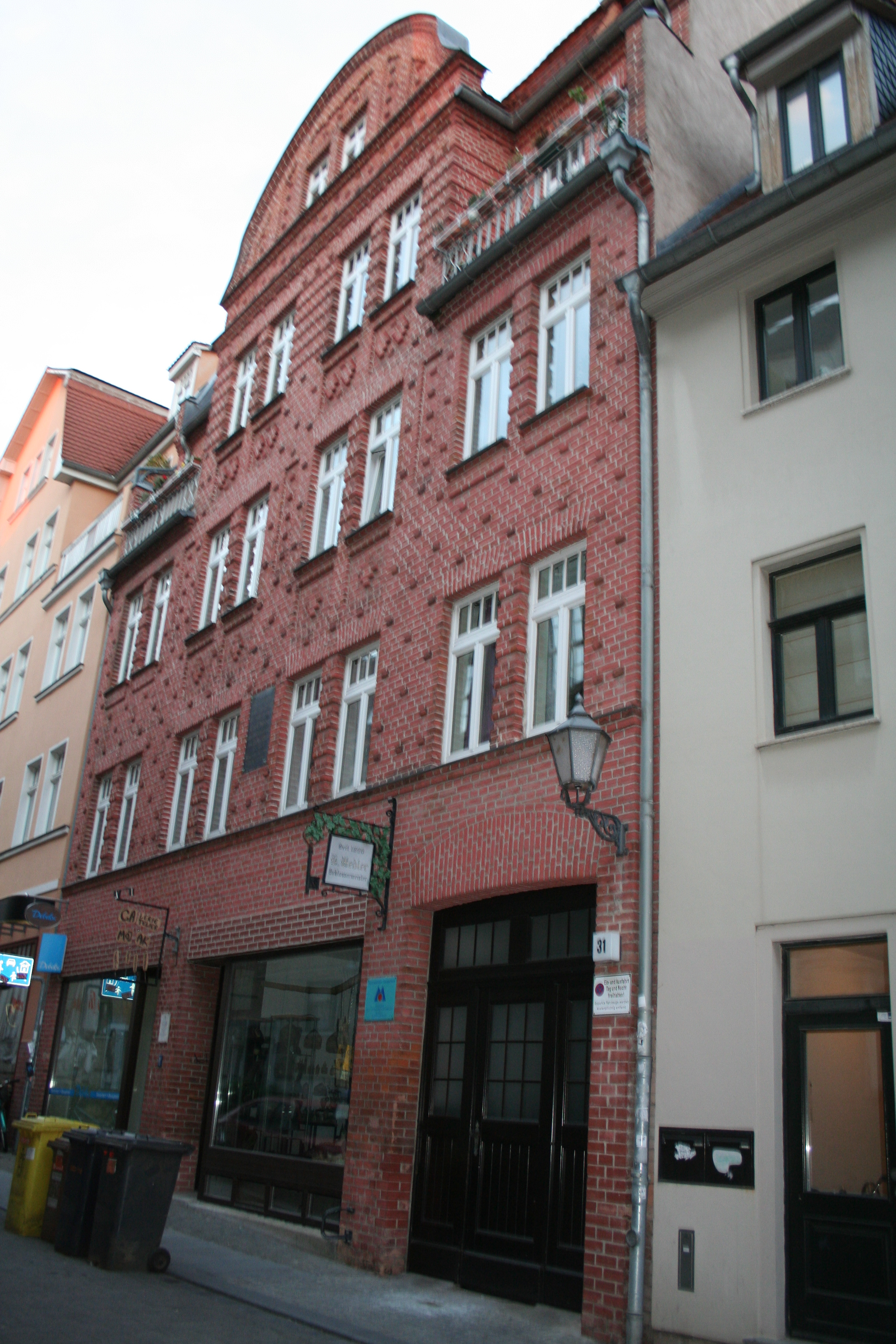 Kleine Ulrichstraße 31 in Halle (Saale)